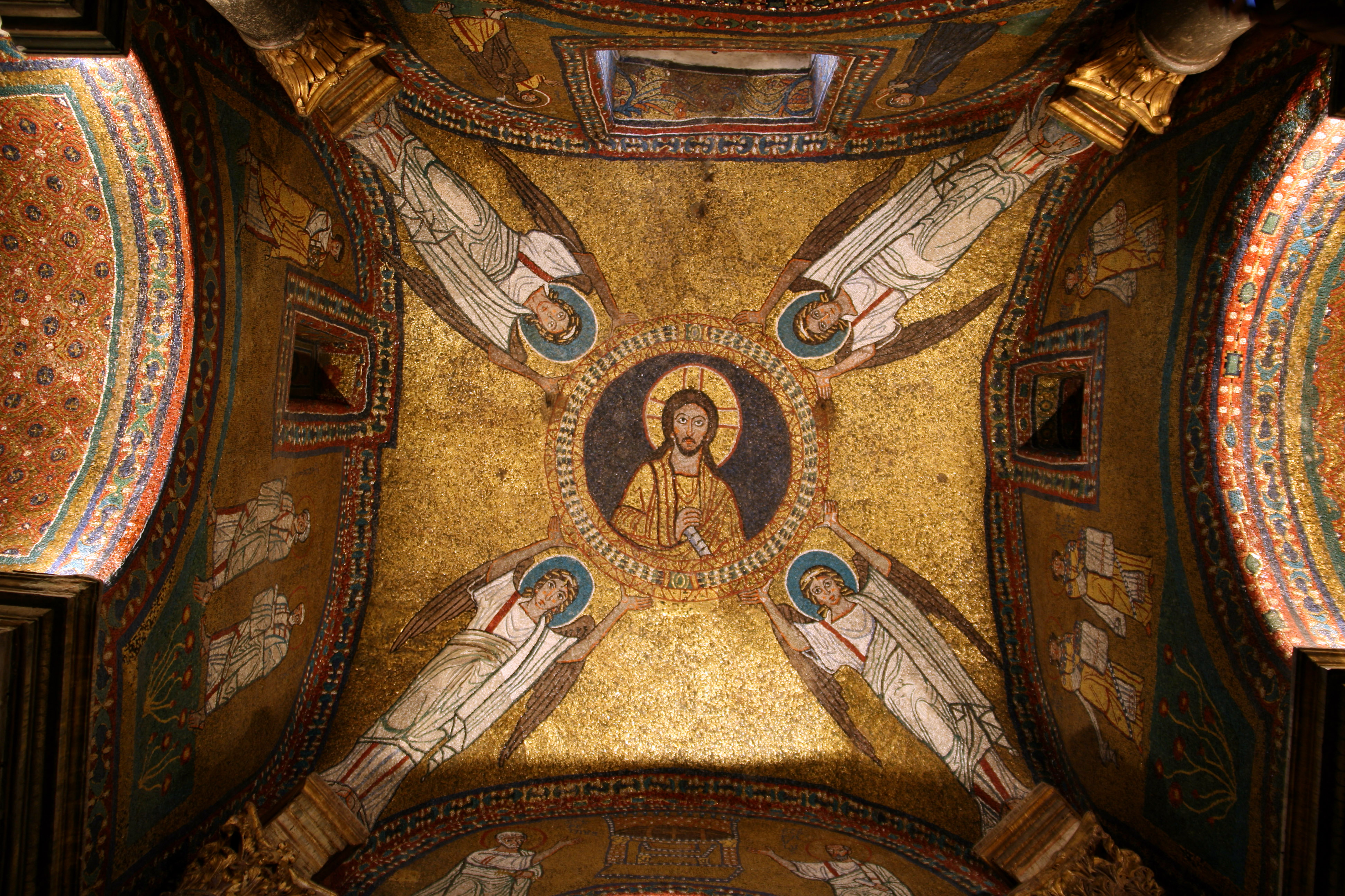 Vault of the San Zeno Chapel, Basilica di Santa Prassede, Rome, Italy